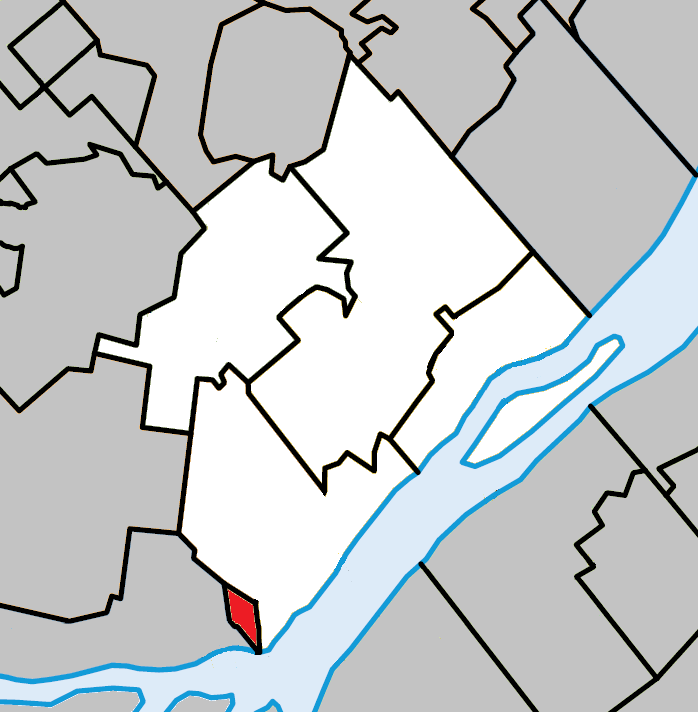 Location of Charlemagne, Quebec within L'Assomption Regional County Municipality.